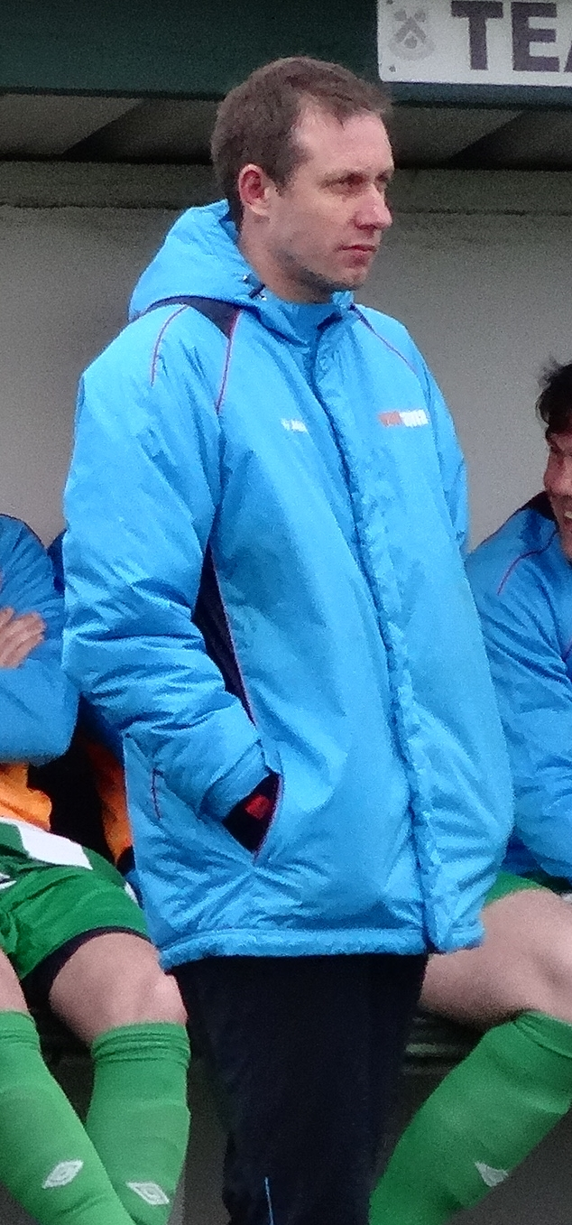 Darryn Stamp at North Ferriby United's match against Solihull Moors at Grange Lane, North Ferriby on 18 March 2017